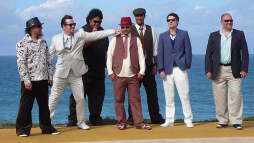 Photo of the 7 members of the band Fat Freddy's Drop in Europe in 2008